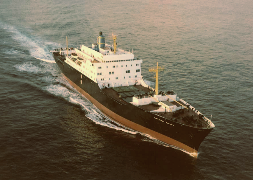 Massachusetts Maritime Academy training ship Patriot State underway circa 1990.